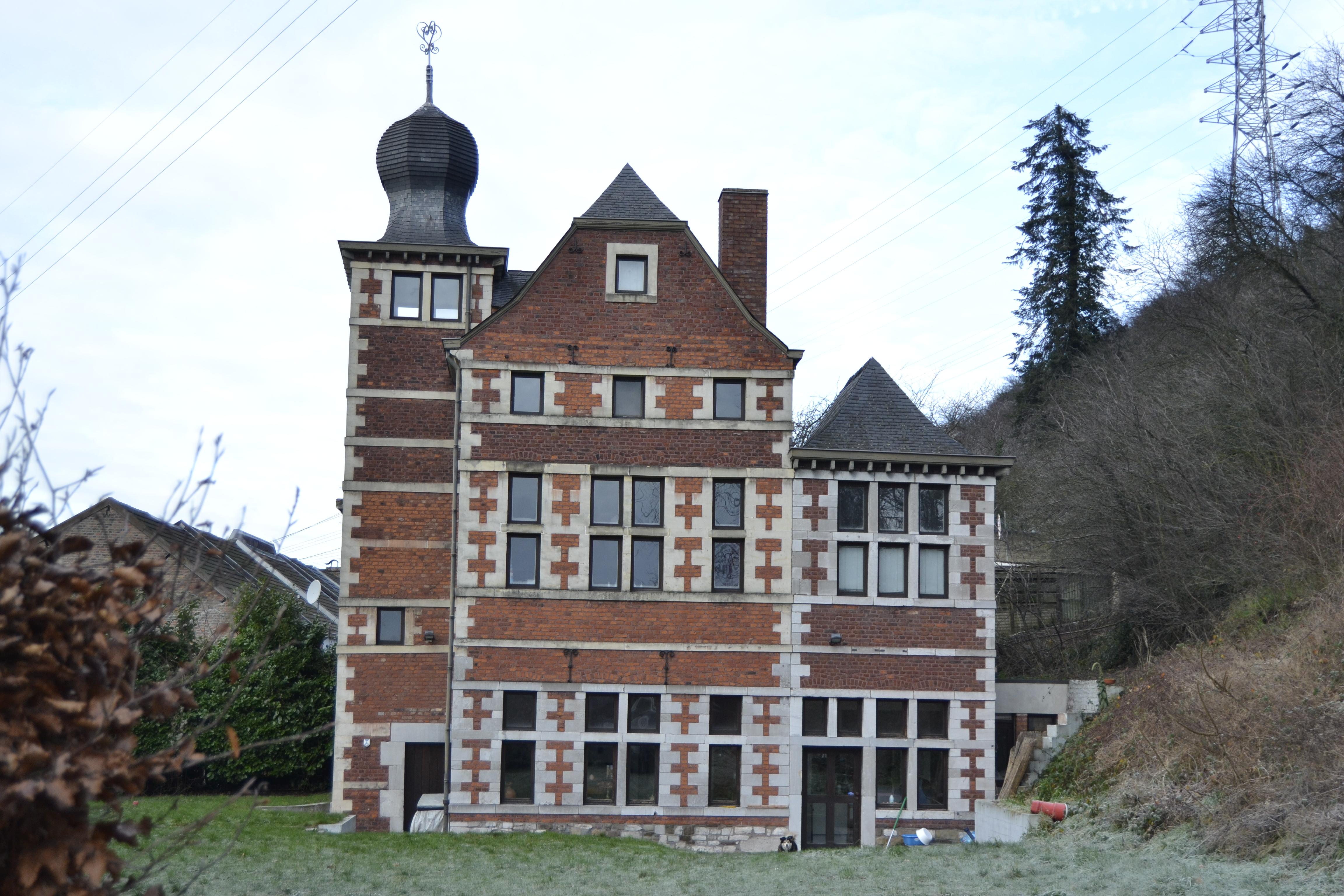 Torette House in Tilleur, Belgium